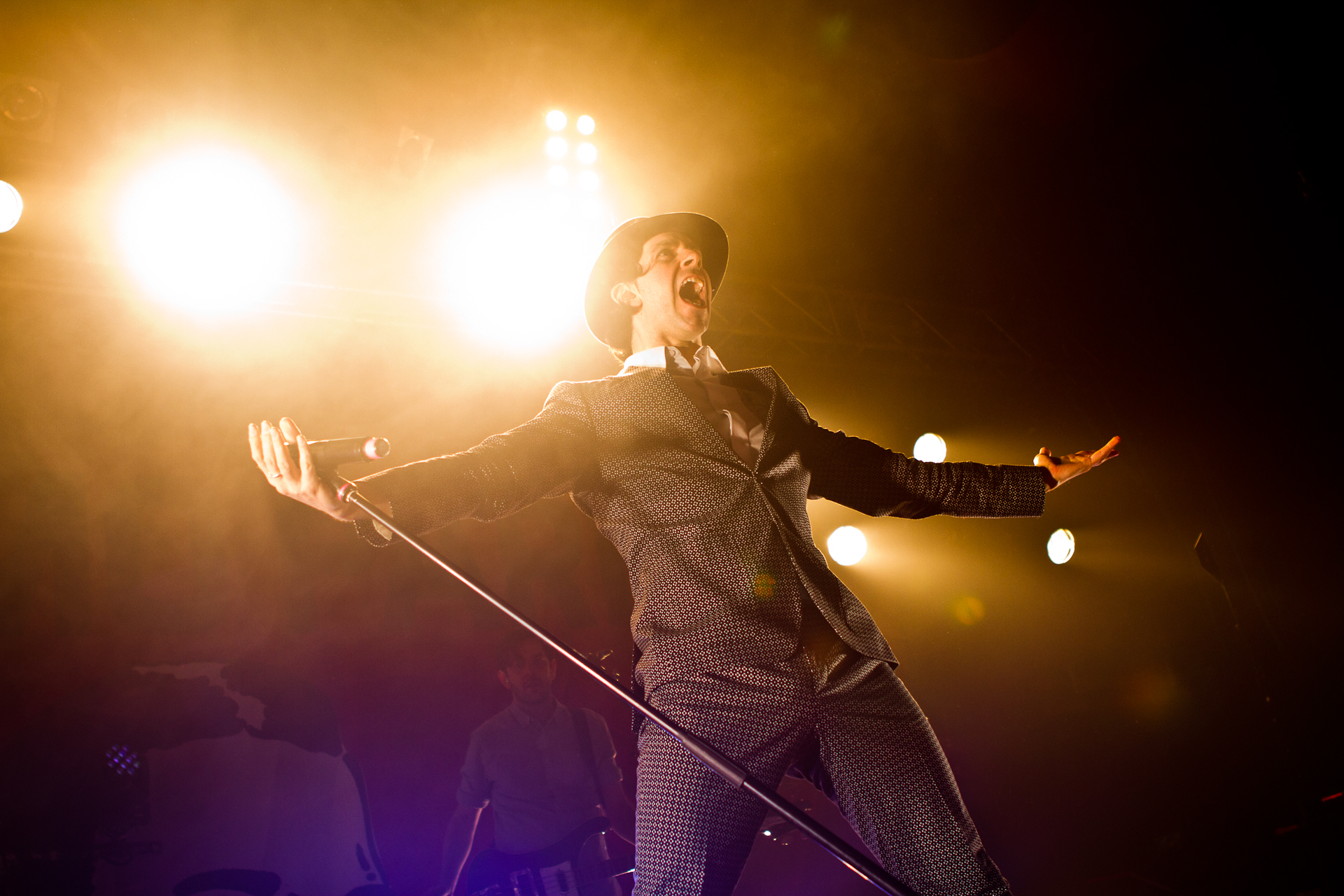 Paul Smith of Maxïmo Park in the Live Music Hall Cologne